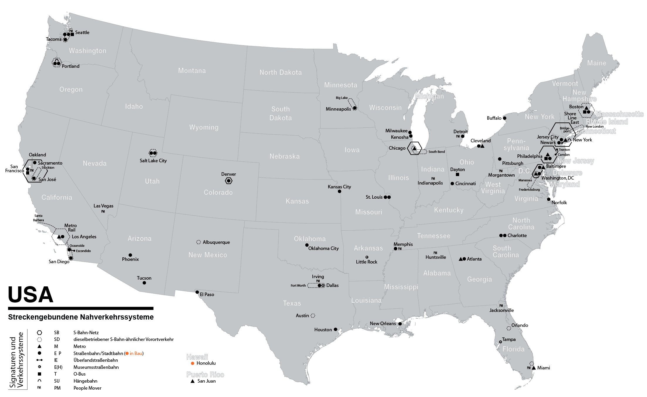 Map of fixed-route public transport systems (suburban railways, Rapid Transit and Light Rail Transit systems, tram, trolleybus) in the United States